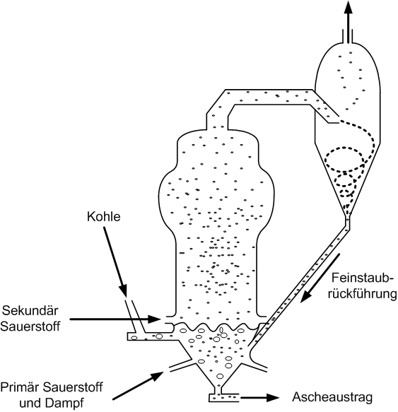 Circulating fluidized bed (CFB).